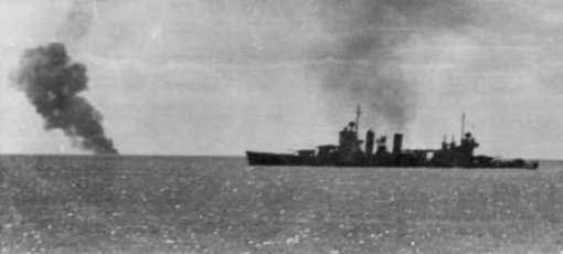 Port side view of the U.S. Navy New Orleans-class heavy cruiser USS Quincy (CA-39), taken after shooting down the first Japanese high level bomber aircraft, its smoke seen on the horizon, off Guadalcanal.